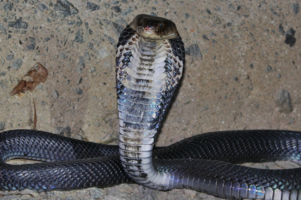 Chinese cobra (Naja atra) with hood spread. Found inside a water catchment on Lantau.